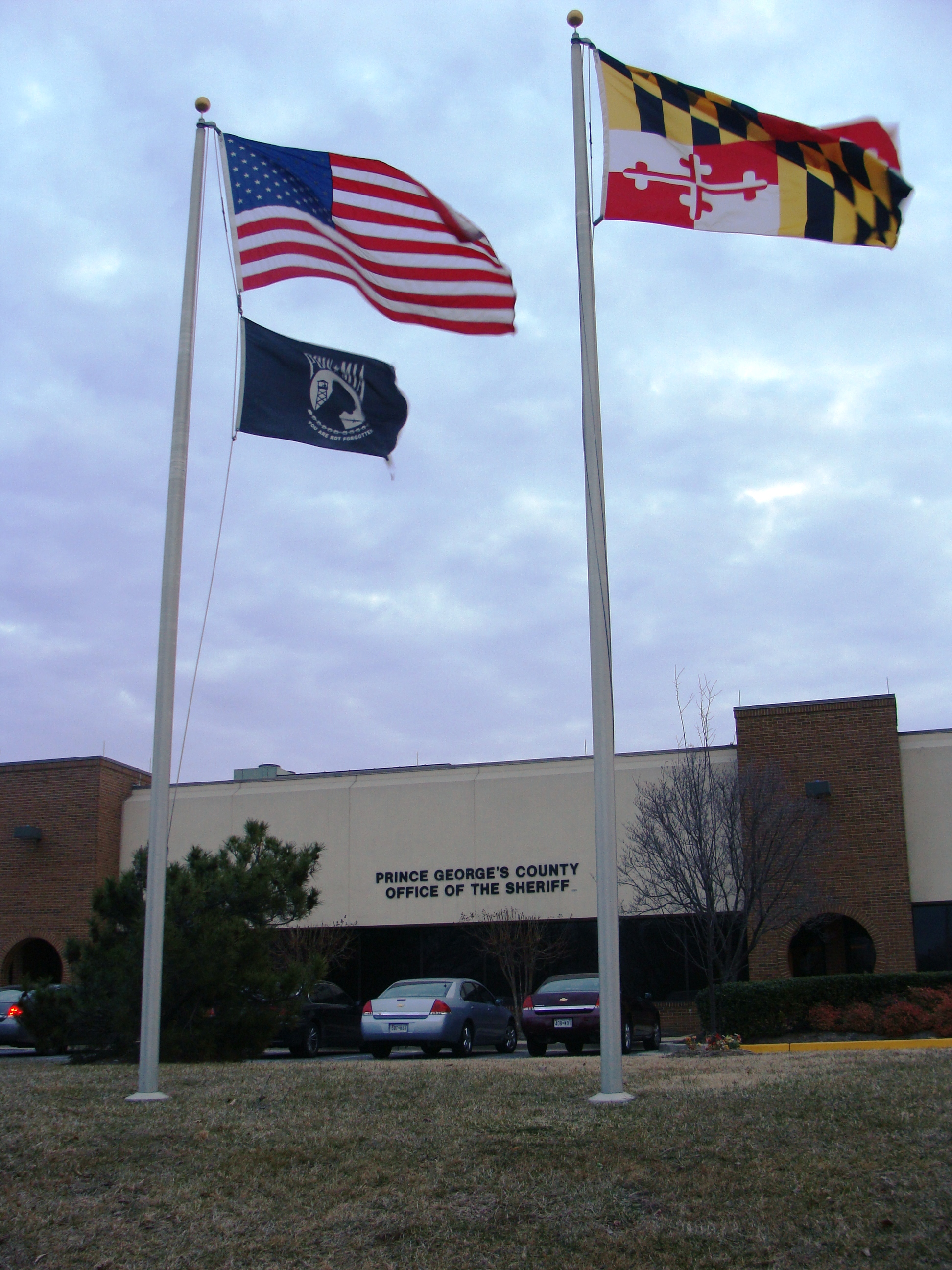 The front of the (former) Prince George's County Sheriff's Office (PGSO) substation in Largo, Maryland, in February 2009. Located at 1601 McCormick Drive, Largo, Maryland, 20774.